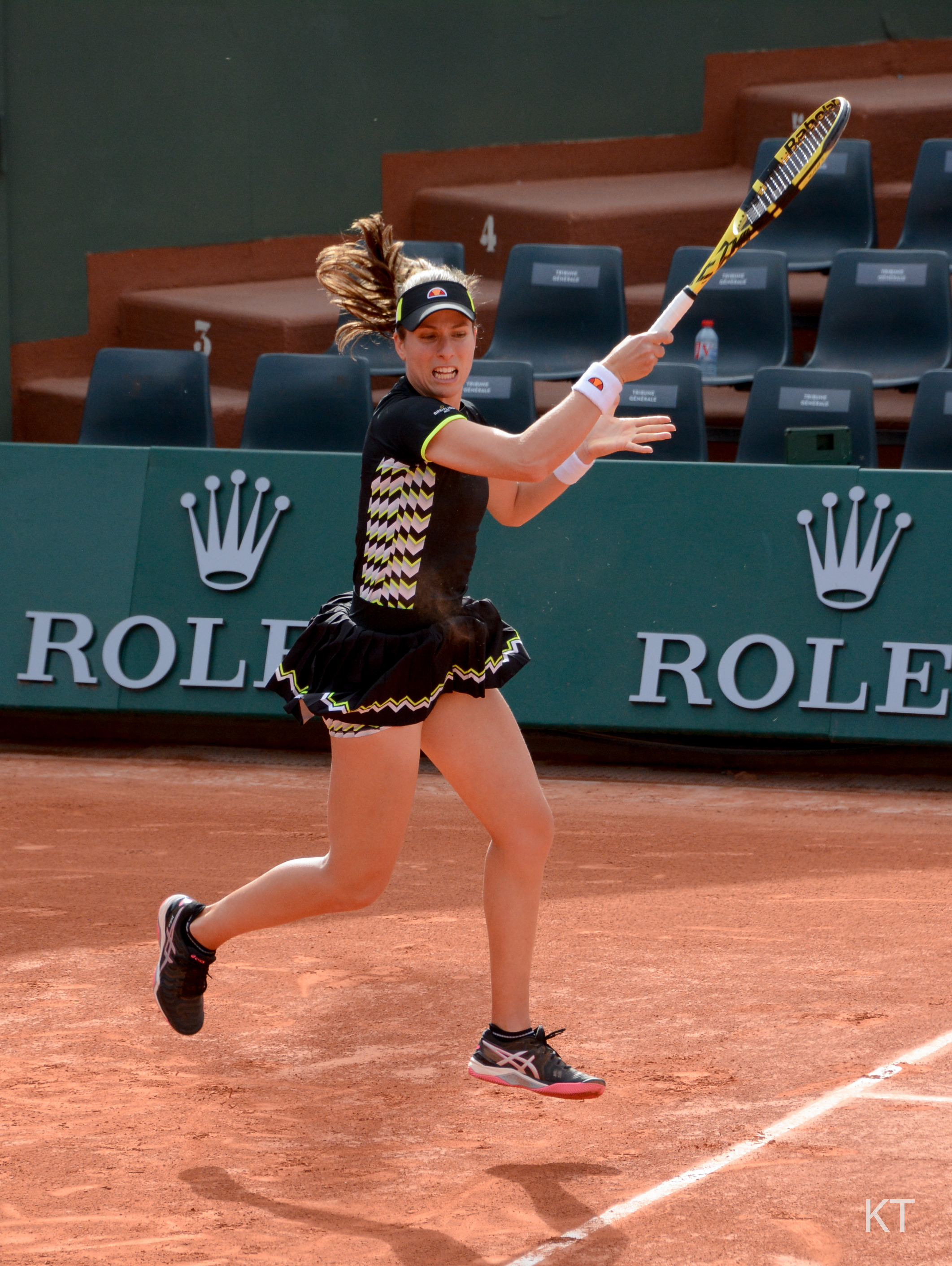 Jo Konta during her second round match against Lauren Davis. Day 4 of Roland Garros 2019.